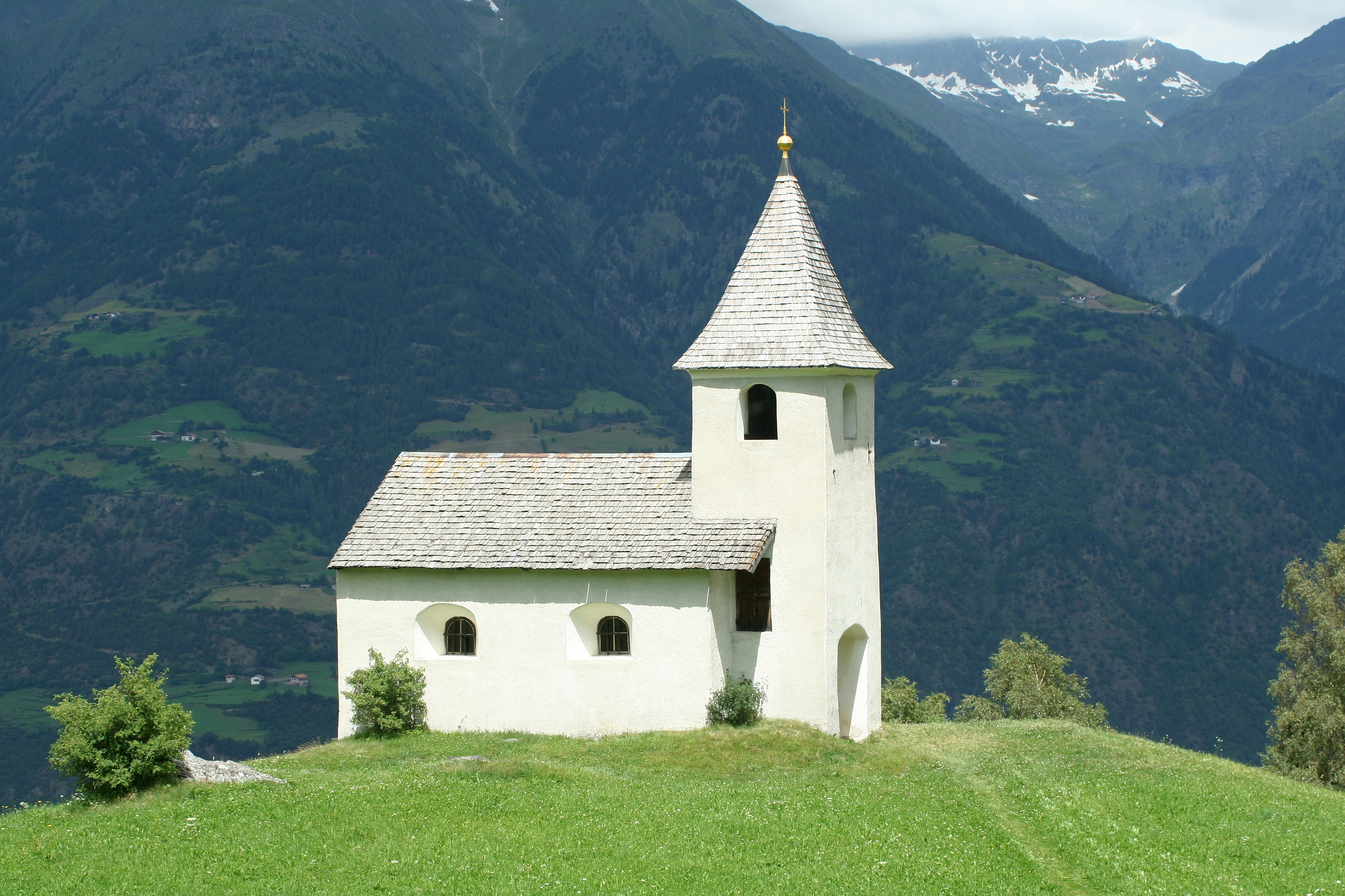 Chapel Maria Schnee in Algund, South Tyrol (built in 1695)